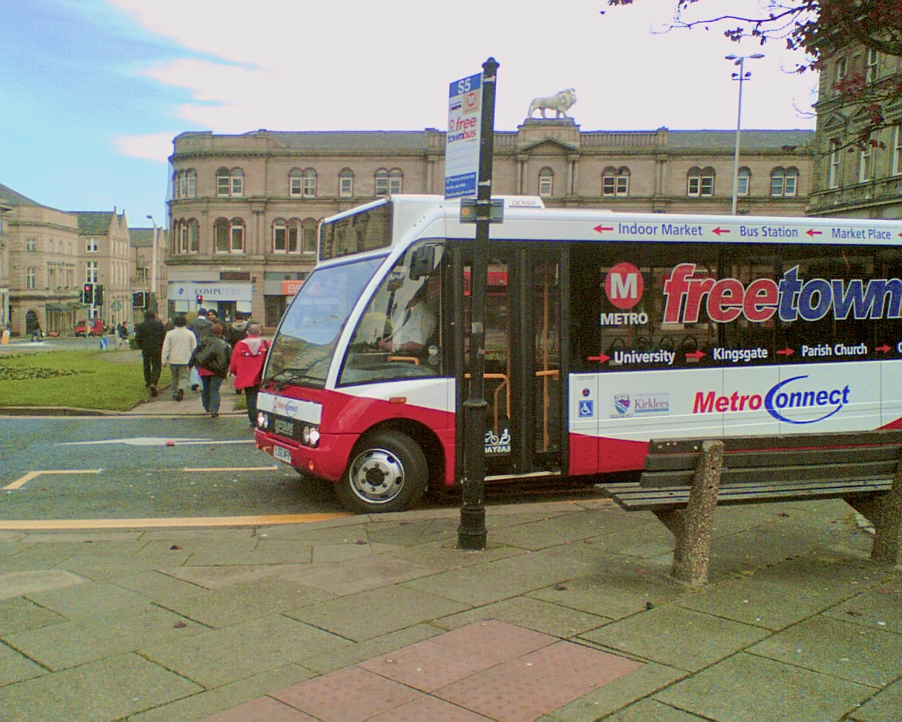 Teamdeck bus 41 (reg. YJ56 WFK), a 2006 Optare Solo M920SL midibus, pictured in Huddersfield. It's branded for and operating the MetroConnect free bus service provided on behalf of the West Yorkshire Passenger Transport Executive (Metro).